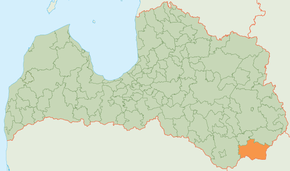 Map of Krāslava municipality, Latvia